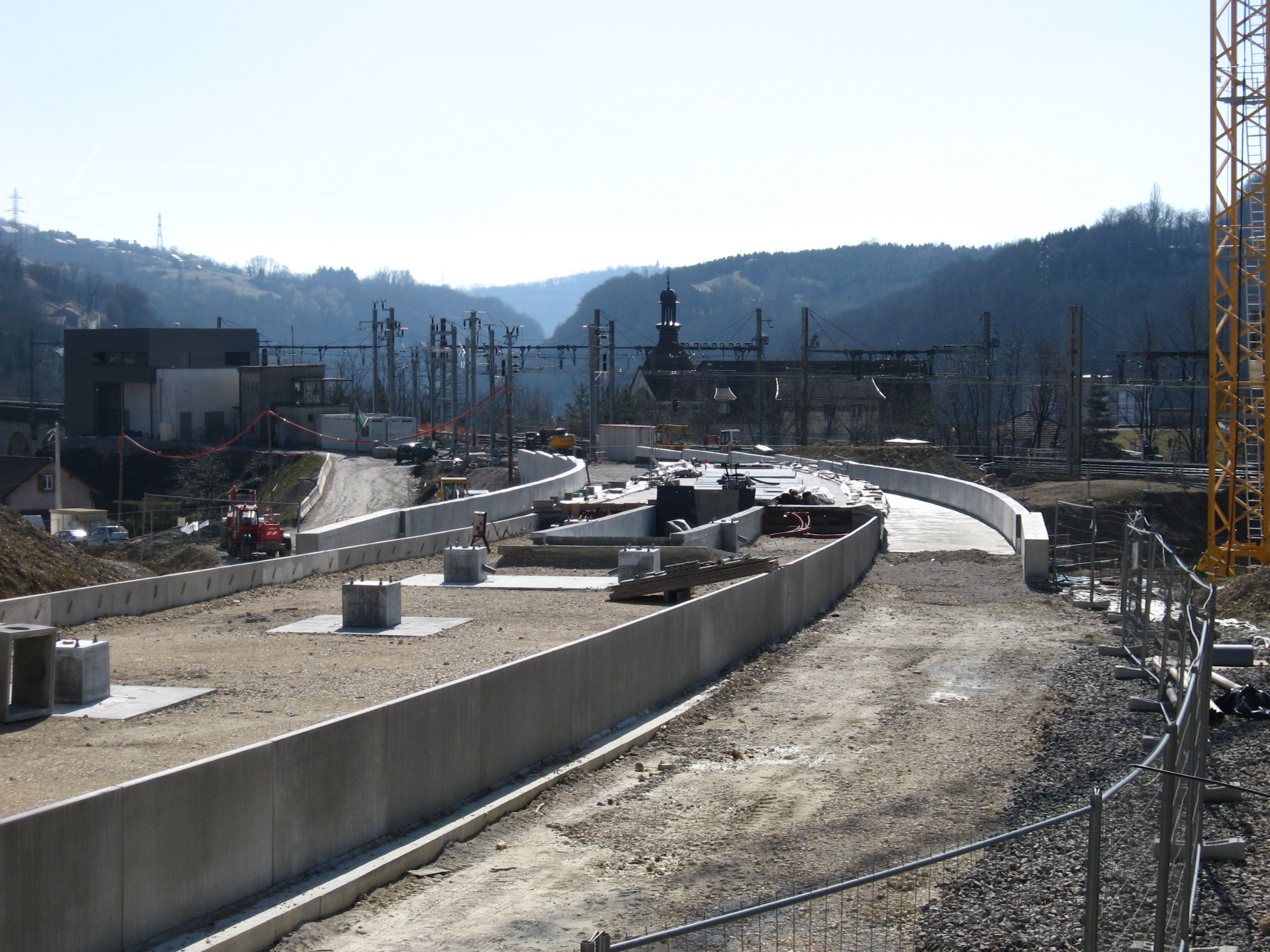 New platform for the TGV rebuild line to Bourg-en-Bresse in Bellegarde. In the background is the main line.